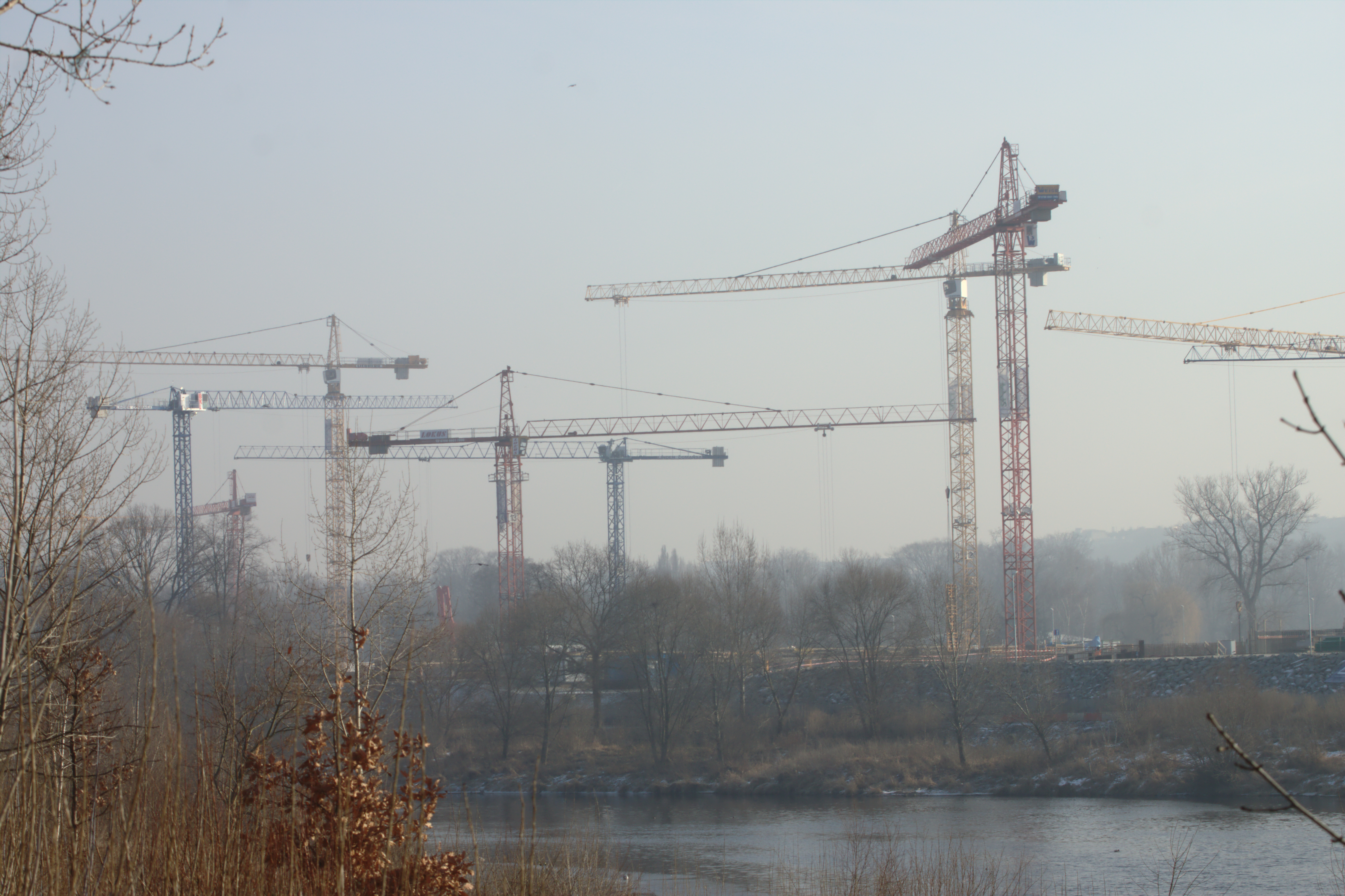 Construction site of the new water treatment plant in Prague, CZ